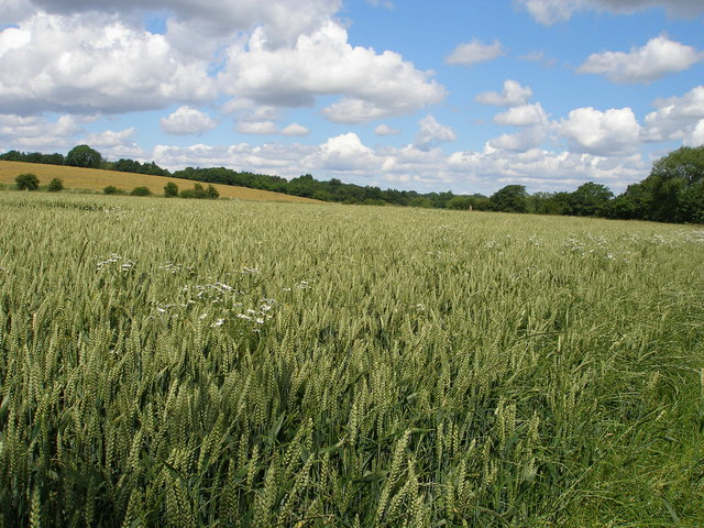 Looking across arable land towards the trees of Eaglescliffe golf course